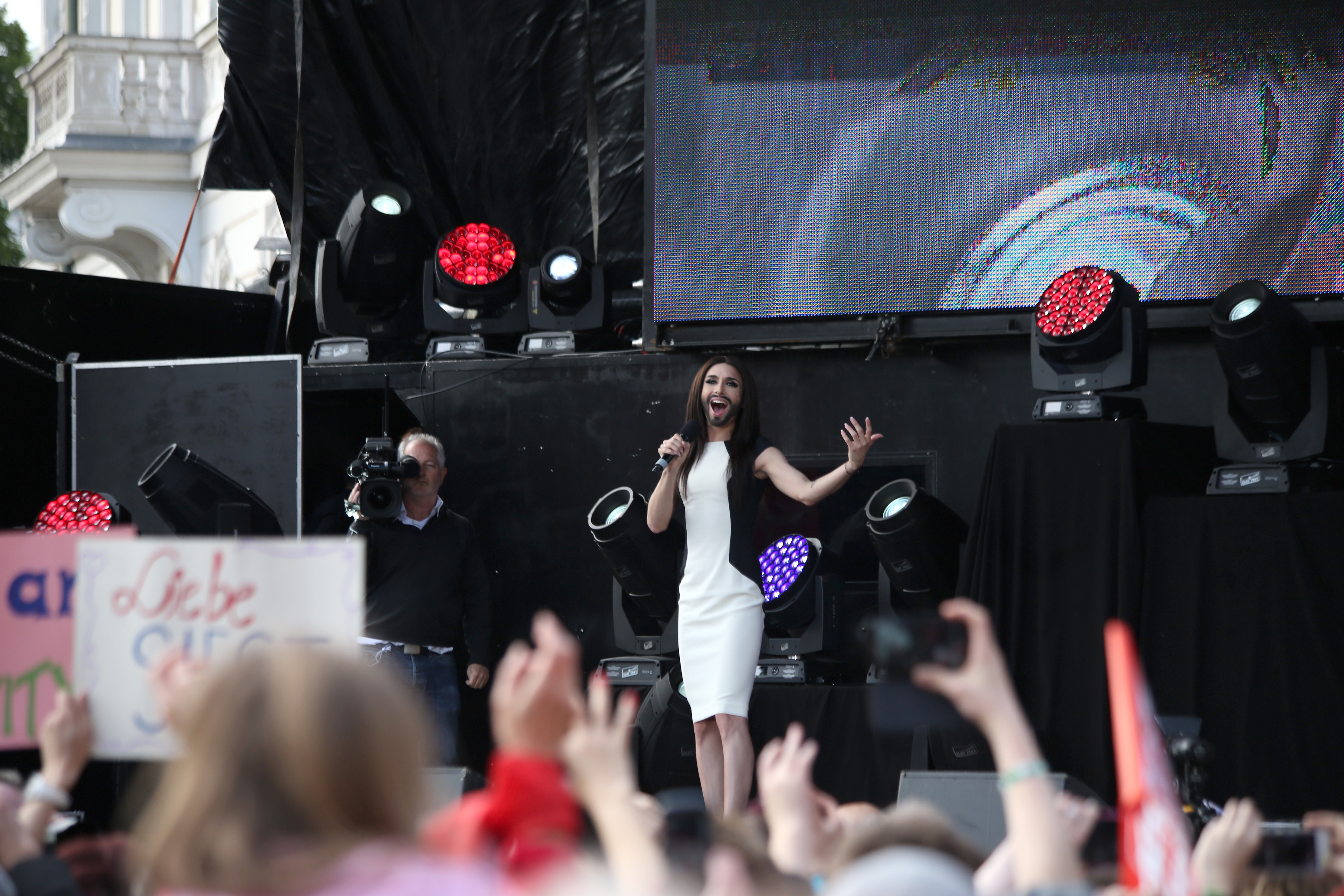 On 18 May 2014 Conchita Wurst, winner of the Eurovision Song Contest 2014 on 10 May, was officially received at the Federal Chancellery of Austria. After that she gave a performance on Ballhausplatz in front of an estimated audience of 12000 people (Vienna, Austria).